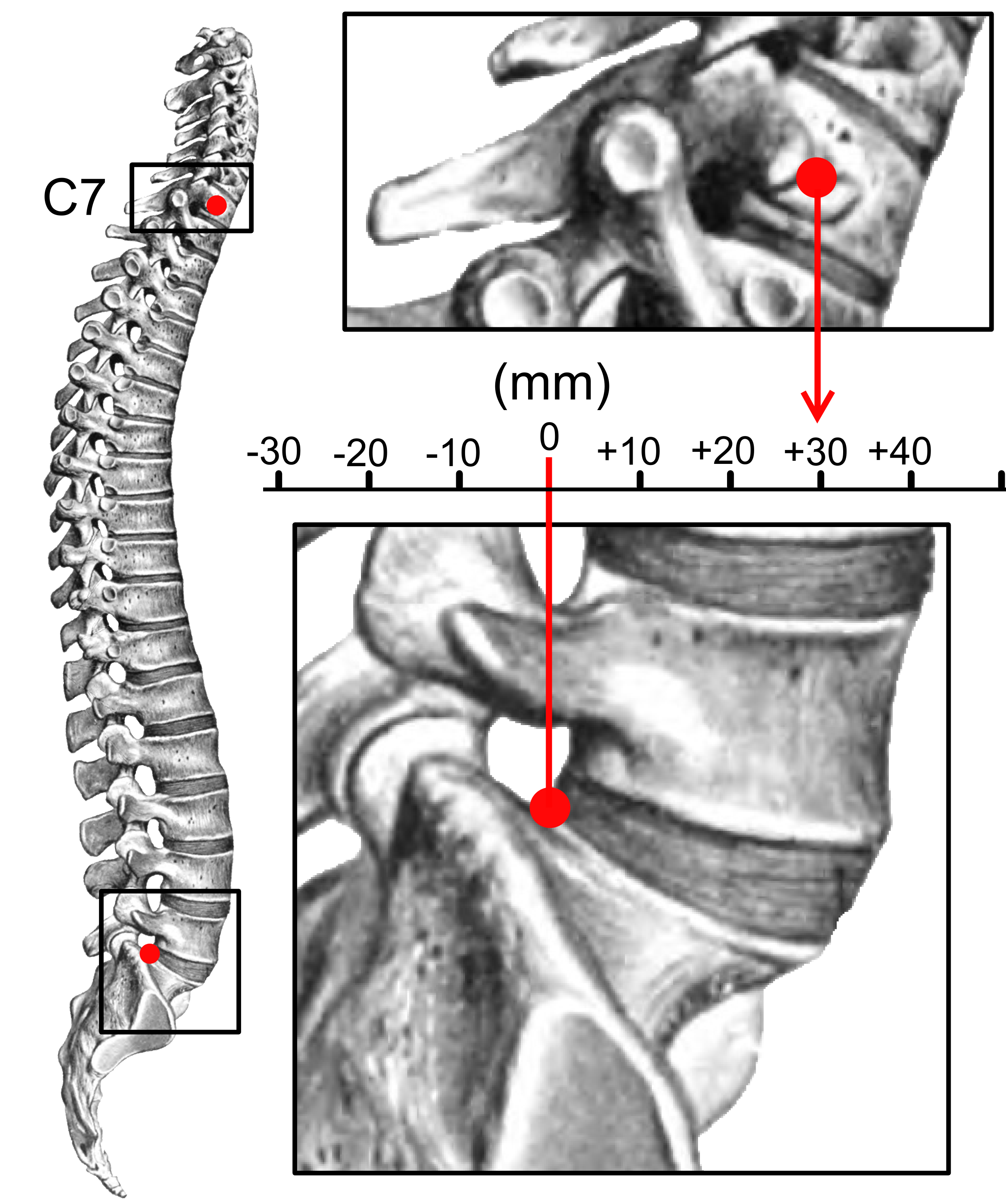 Measurement of sagittal balance of the vertebral column. It is the horizontal distance between the center of C7 and the superior-posterior border of the endplate of S1 on a lateral radiograph. (2014). "Conceitos atuais sobre equilíbrio sagital e classificação da espondilólise e espondilolistese". Revista Brasileira de Ortopedia 49 (1): 3–12. ISSN 01023616. Cavanilles-Walker JM, Ballestero C, Iborra M, Ubierna MT, Tomasi SO (2014). "Adult Spinal Deformity: Sagittal Imbalance". International Journal of Orthopaedics 1 (3).